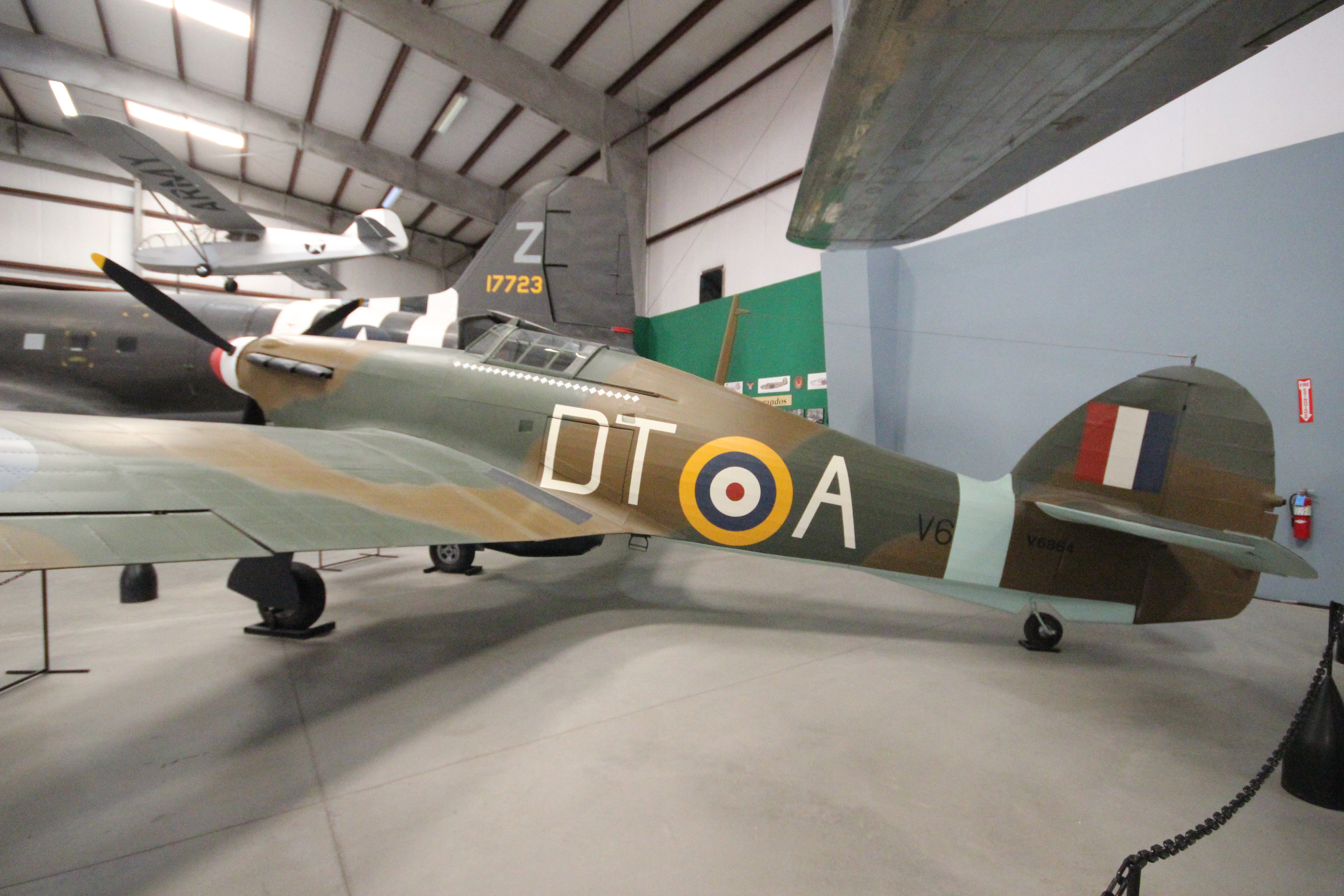 British Hawker Hurricane